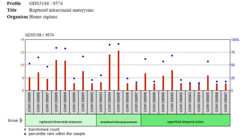 Image displays expression levels of C11orf42 in ruptured aneurysms, unruptured aneurysms and the superficial temporal artery.